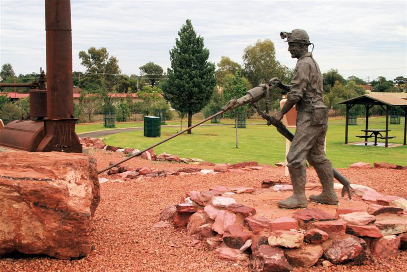 Miner Statue, Miners Heritage Park, Cobar